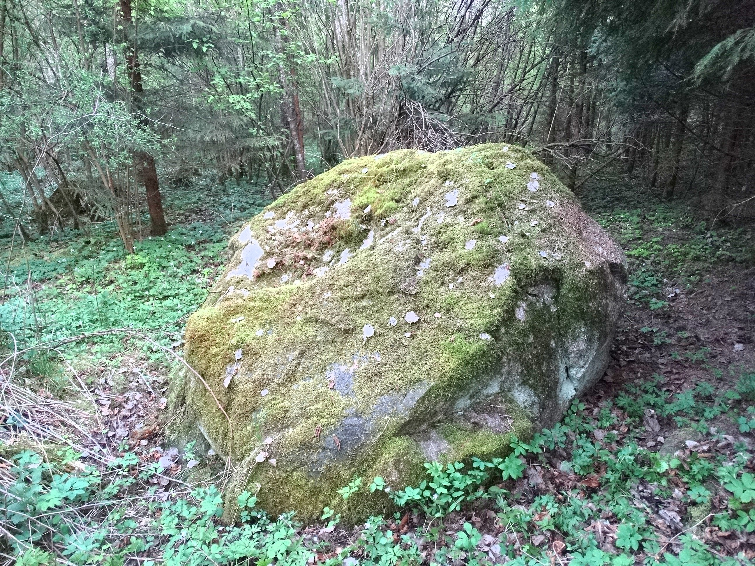 Cegelnia Stone, Šalčininkai District, Lithuania